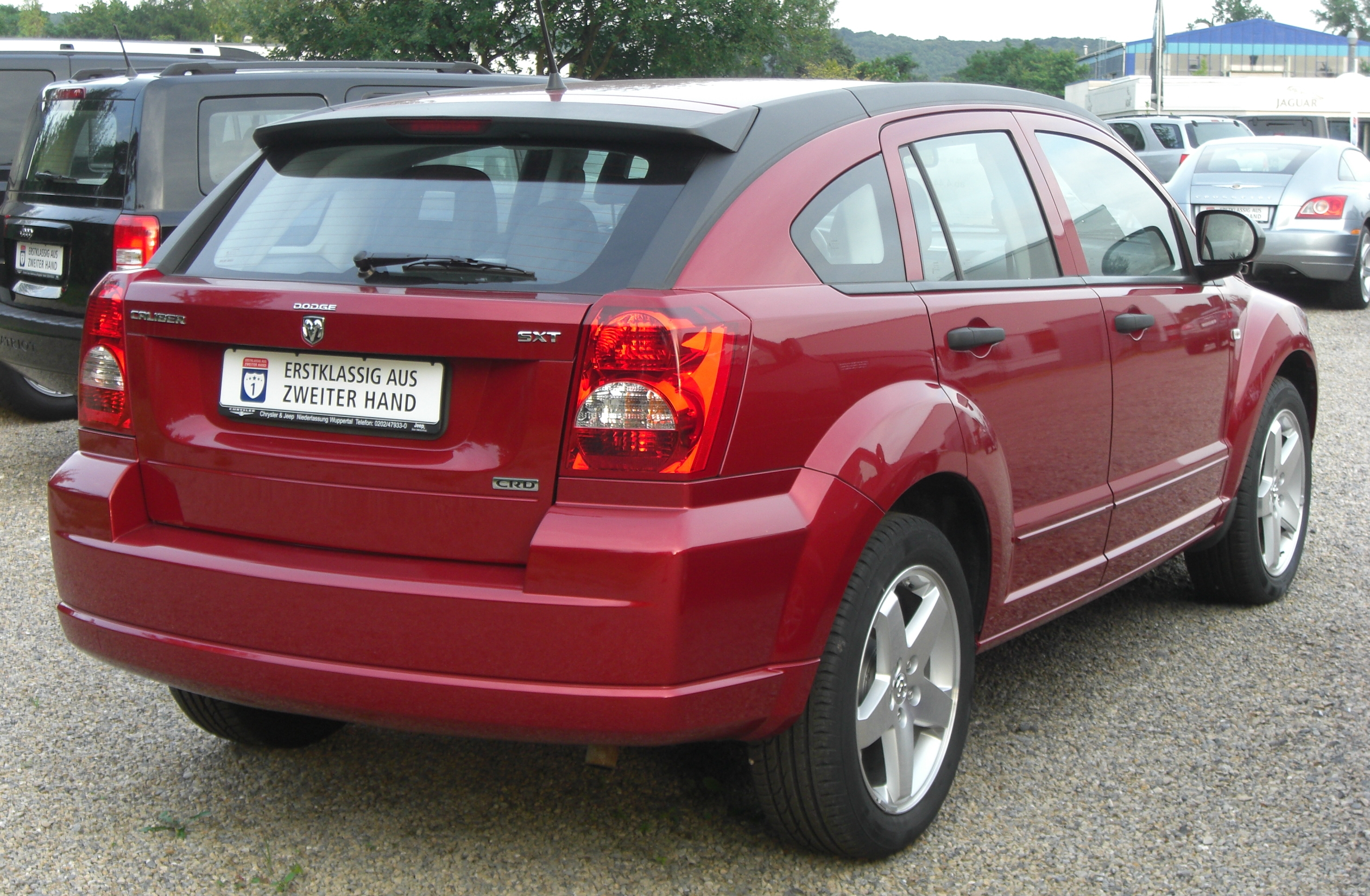 Dodge Caliber